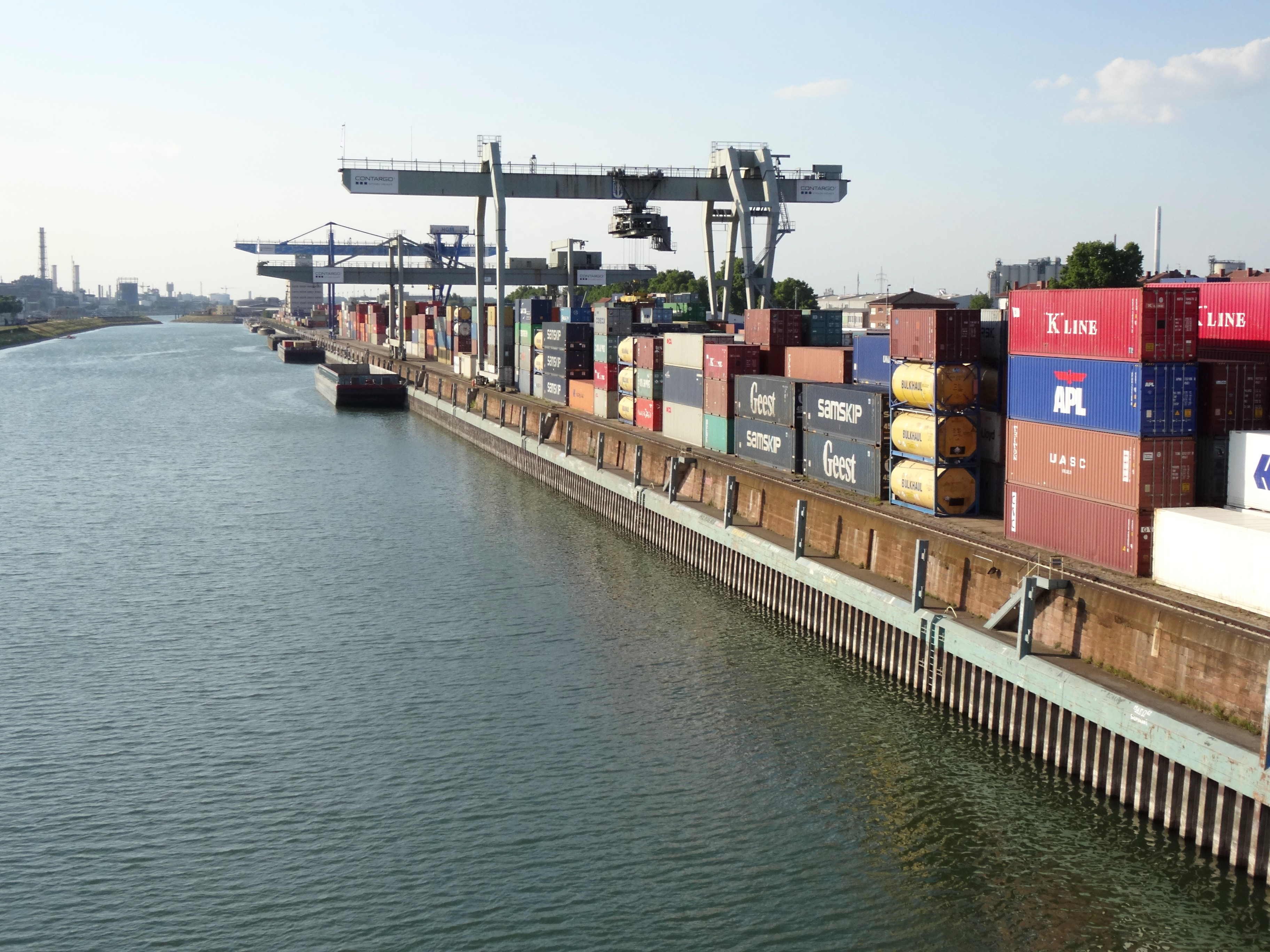 Mannheim (Germany), harbor 12 (Muehlau harbor) with container terminal